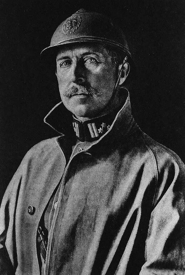 Photographie prise en septembre 1917 du Roi Albert Ier de Belgique (1875-1934) par le photographe britannique Richard Neville Speaight (1875-1938)